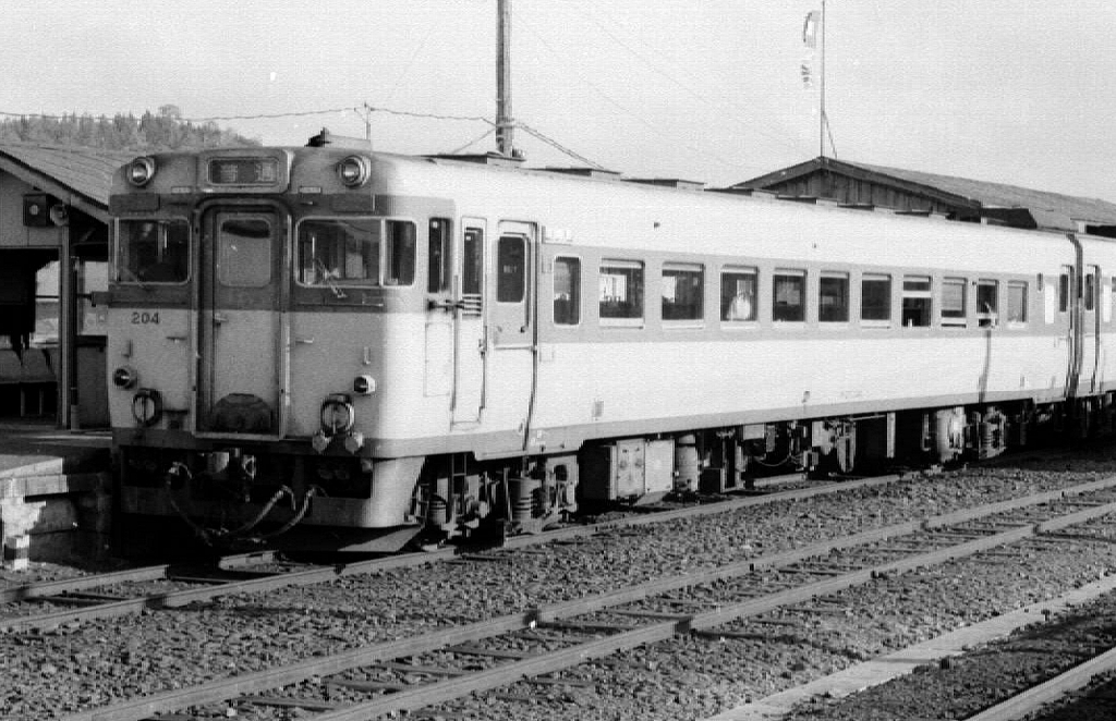 JNR Kiha 27 204 DMU at Senmo Main Line Shibecha Station